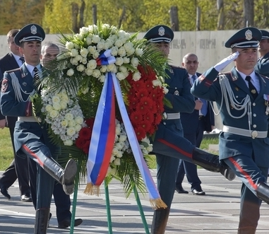 Dmitry Medvedev lays a wreath at the Armenian Genocide Memorial